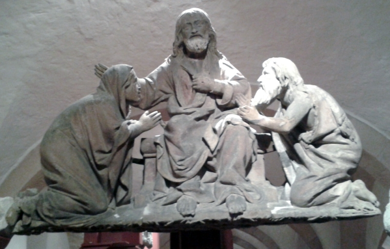 Skulpturengruppe einer Weltgerichtsdarstellung - Thronender Christi mit Maria und Johannes dem Täufer